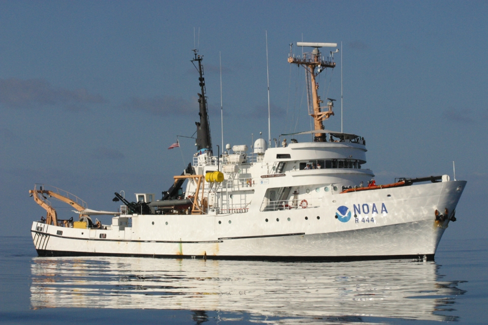 NOAA Ship David Starr Jordan